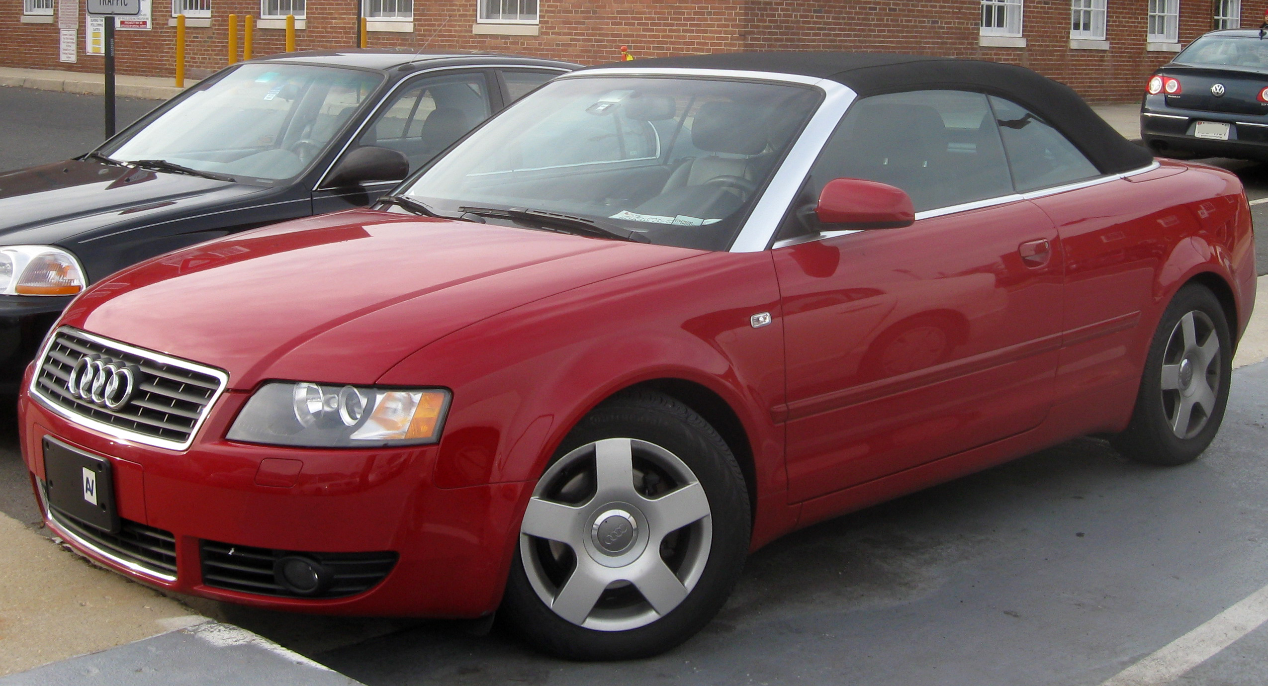 Audi A4 photographed in College Park, Maryland, USA.